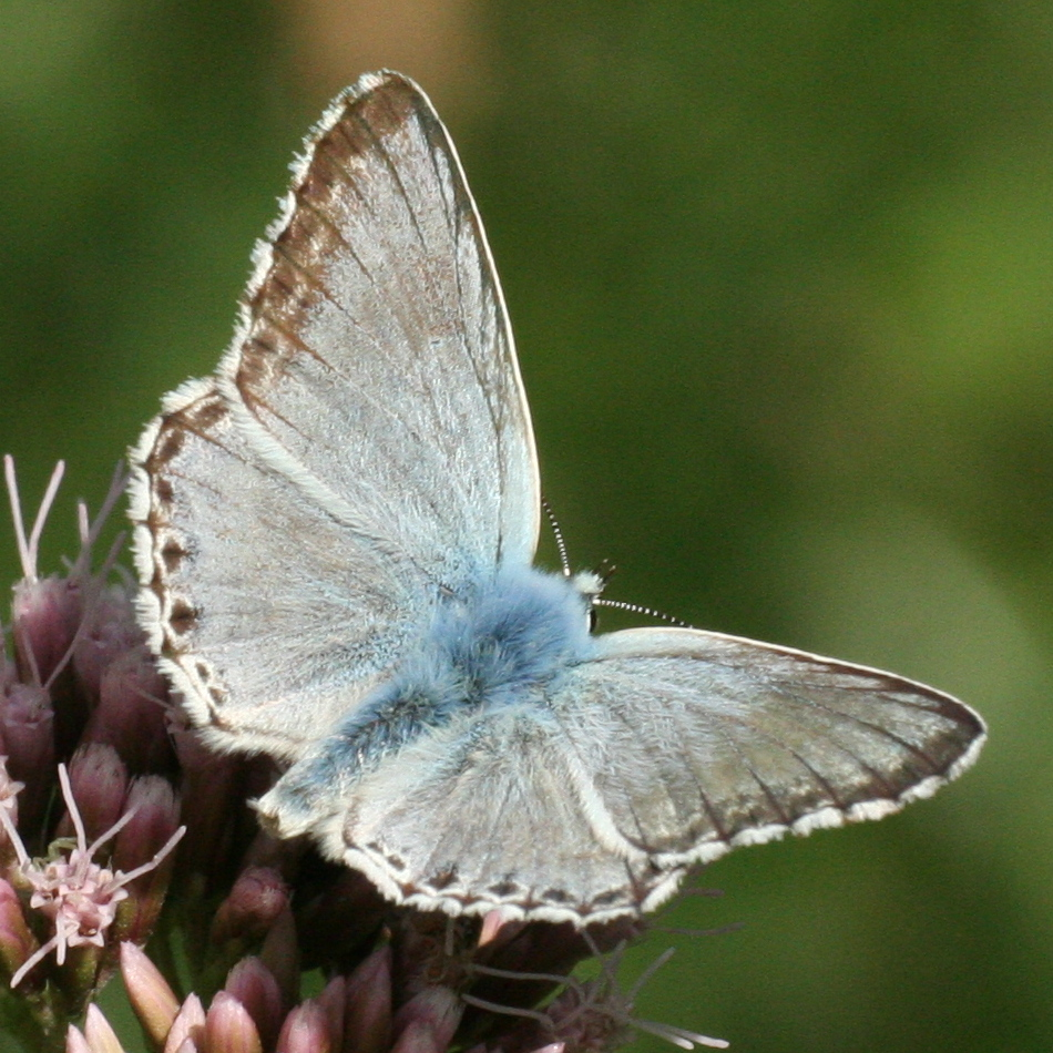 A male Chalkhill Blue butterfly (Polyommatus coridon), photographed in Lehrensteinsfeld